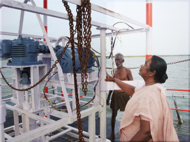 Sr.Avelin in the Dynamic Platform